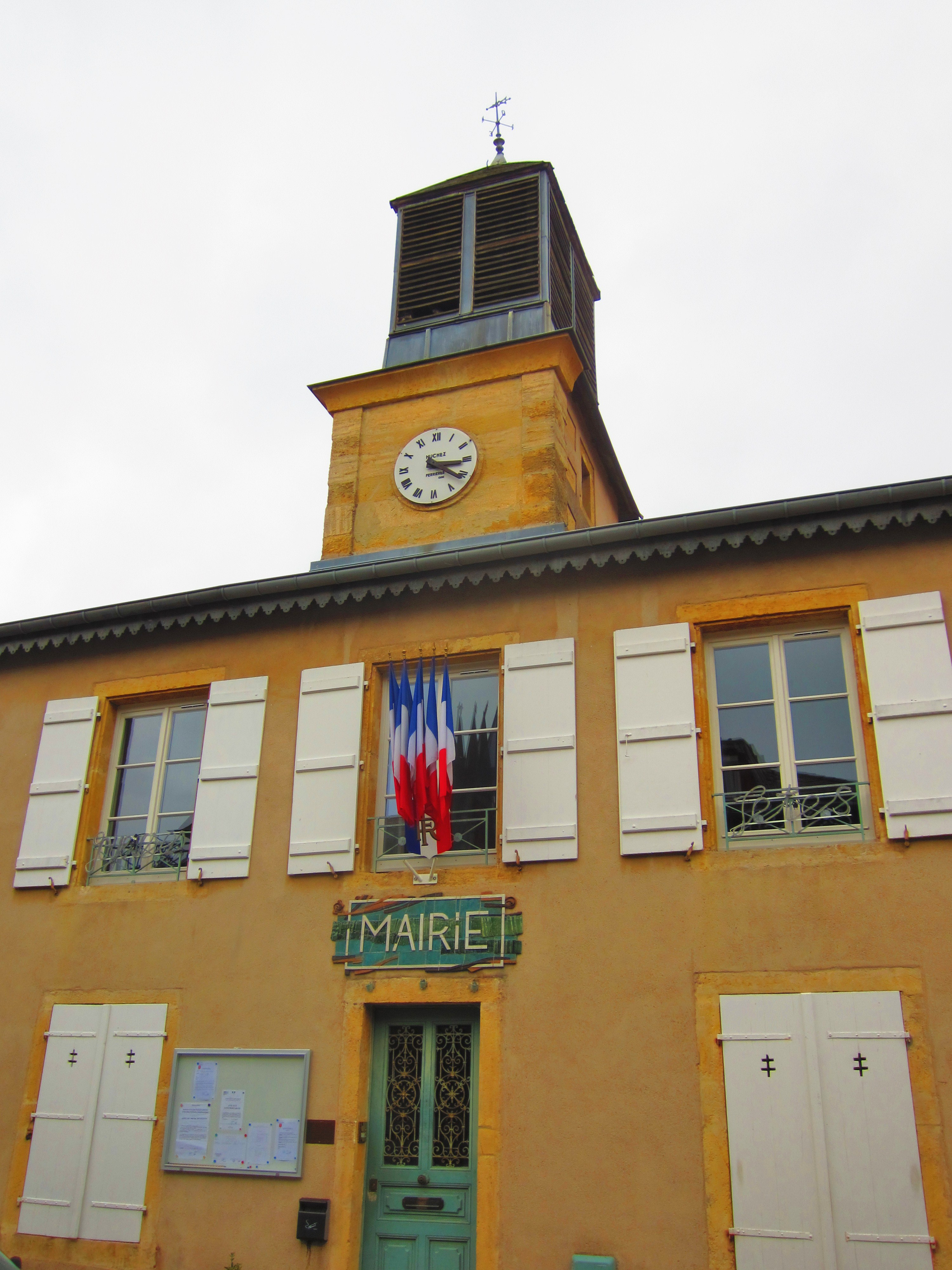 Rozerieulles council town